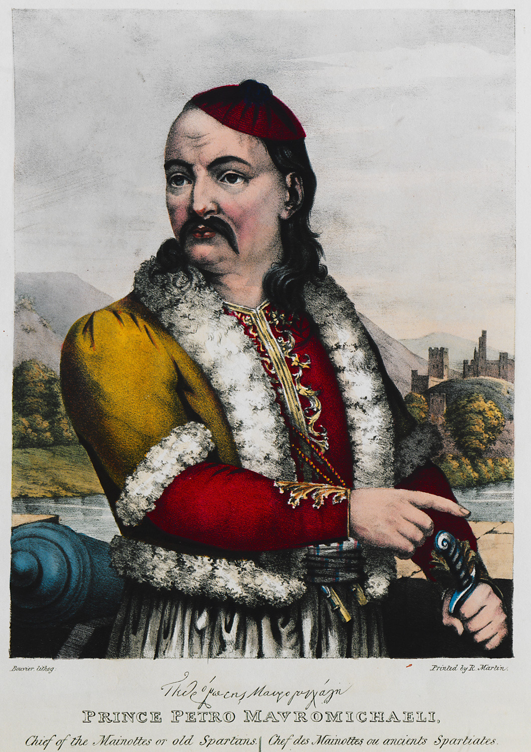 Adam de Friedel. The Greeks, Twenty-four Portraits of the principal Leaders and Personages who have made themselves most conspicuous in the Greek Revolution, from the Commencement of the Struggle, London, Adam de Friedel, 1830.